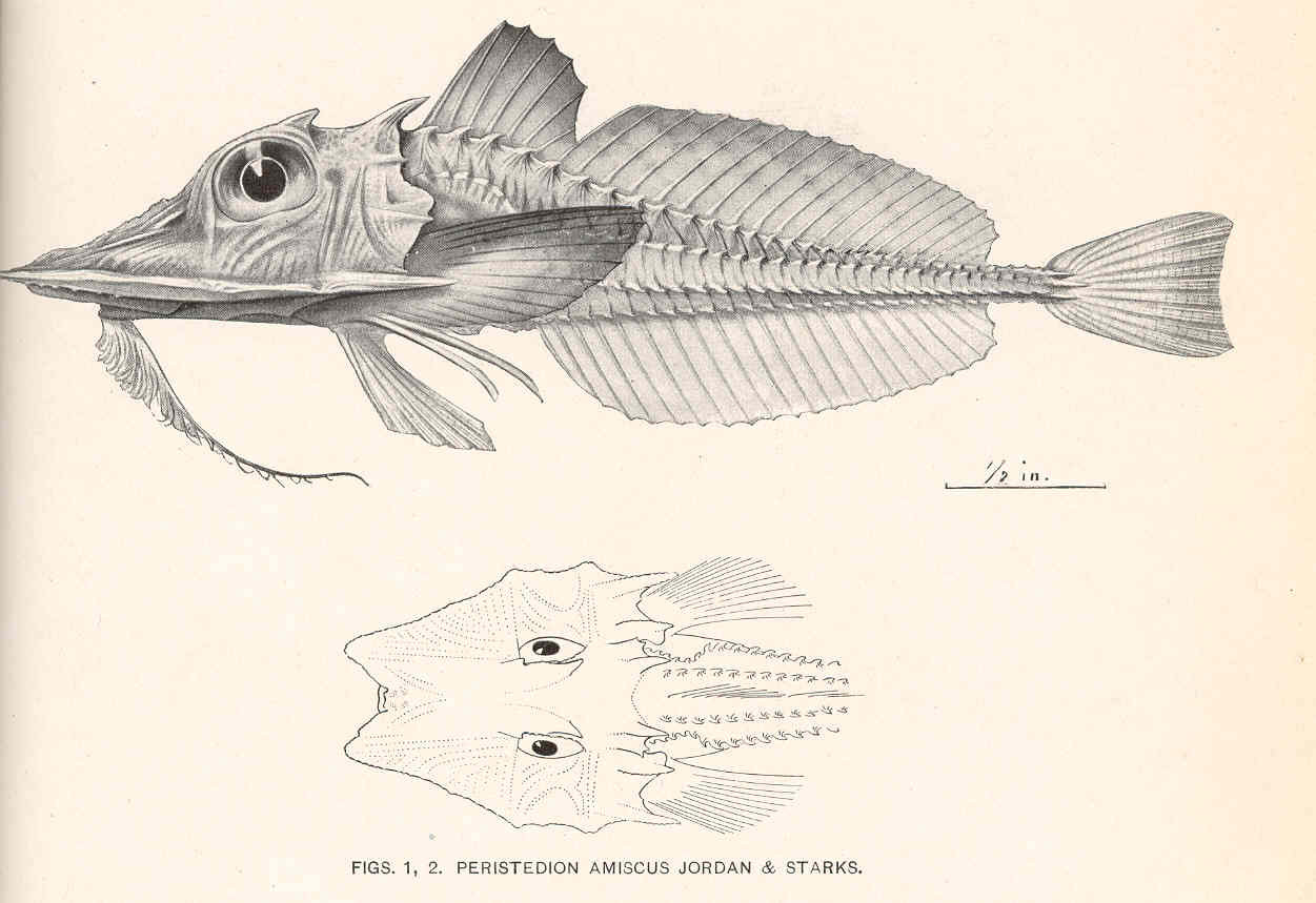 Peristedion amiscus Jordan & Starks Subject: Peristedion Tag: Fish